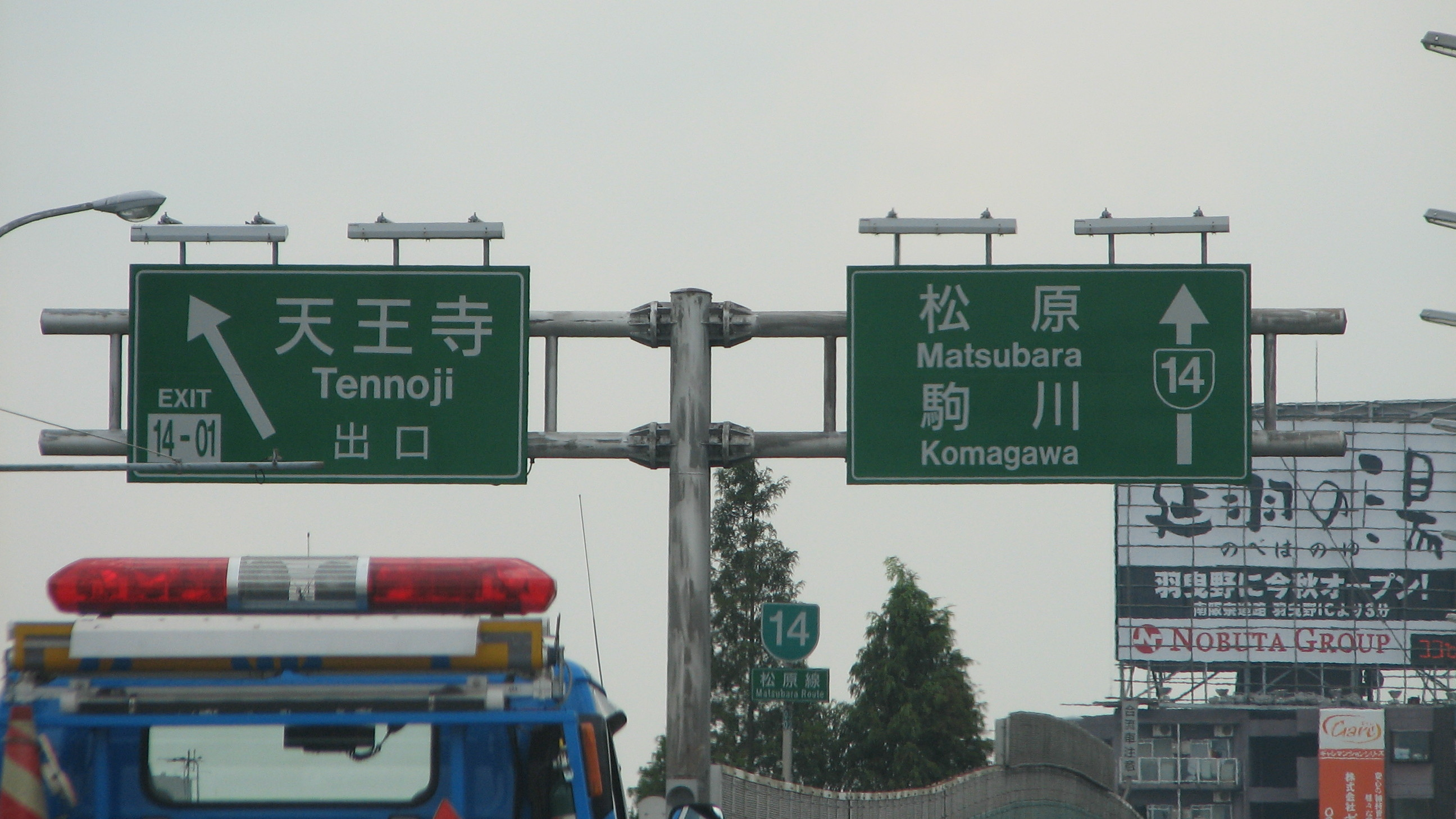 Hanshin Expressway Tennōji IC